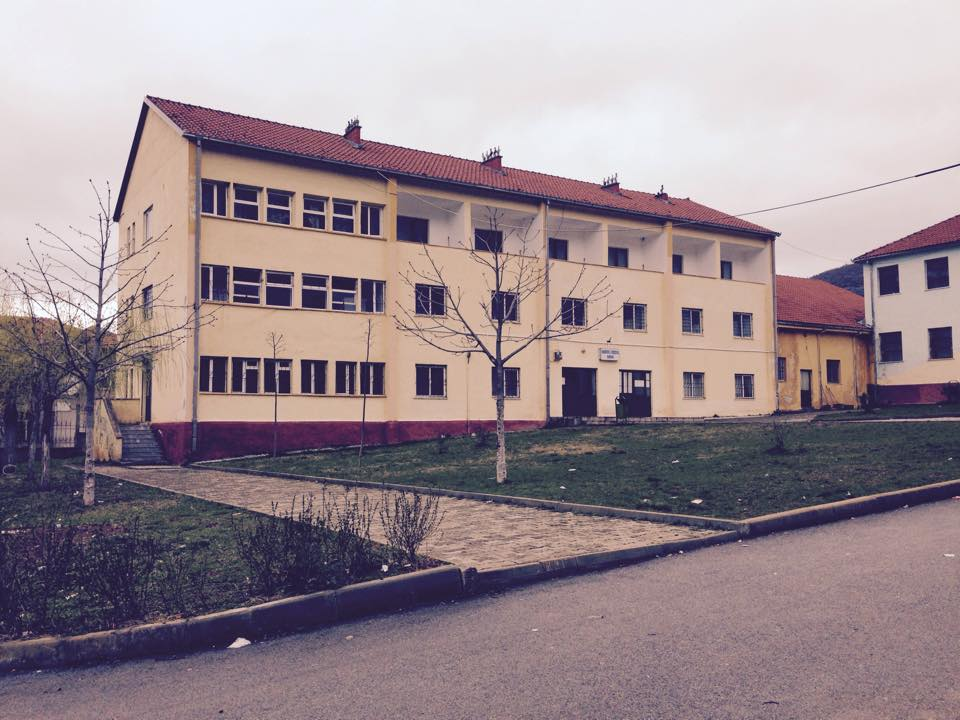 Kosova konvikt